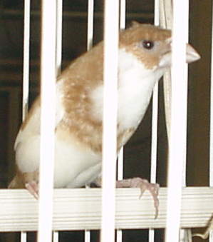 Light brown Society Finch (Lonchura striata var. domestica Syn. Lonchura domestica) in cage